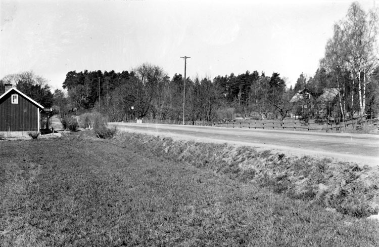 Hjulstaskolan. The place where the first school of Spånga-Järfälla was situated between 1810-1845.